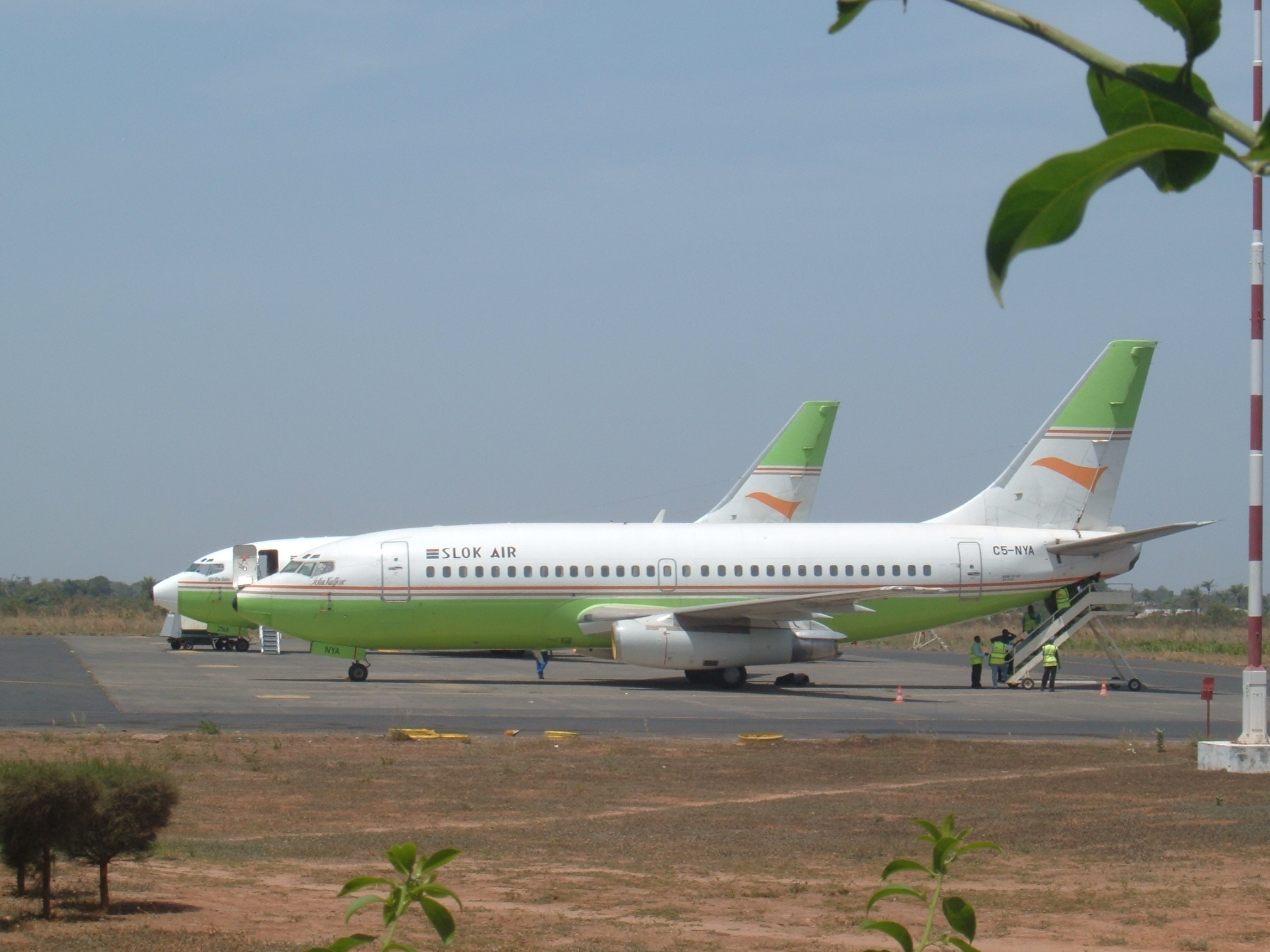 Banjul the GAmbia May First 2007 by Joel SPAN